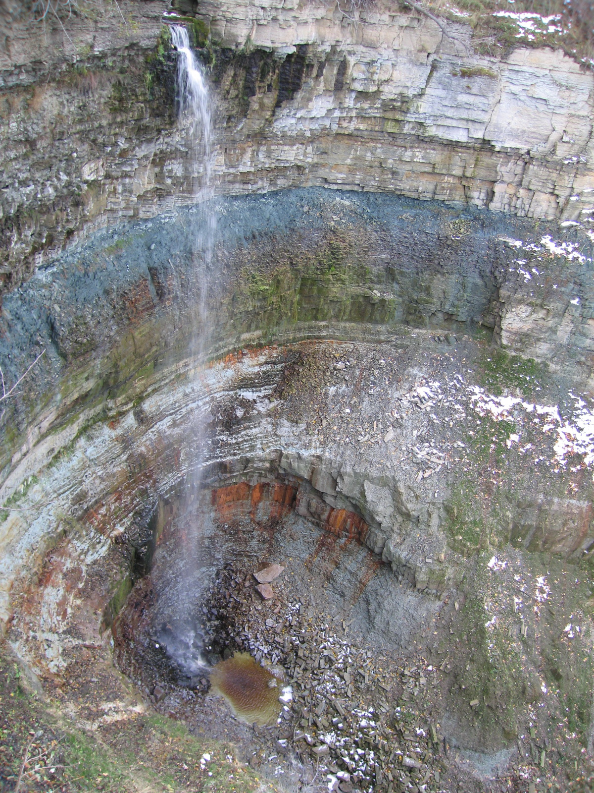 The Valaste waterfall (Valaste juga in Estonian) near the town of Ontika, Ida-Viru county, northeastern Estonia. The rocks exposed here comprise a succession of Upper Cambrian claystone and sandstone, as well as Lower Ordovician phosphoritic and glauconitic sandstone, mudstone and (on top) limestone.[1]